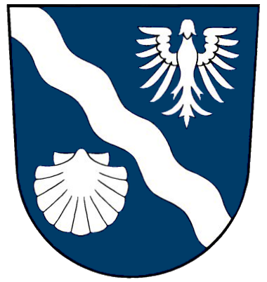 Coat of arms of Kleinblittersdorf, Part of Kleinblittersdorf